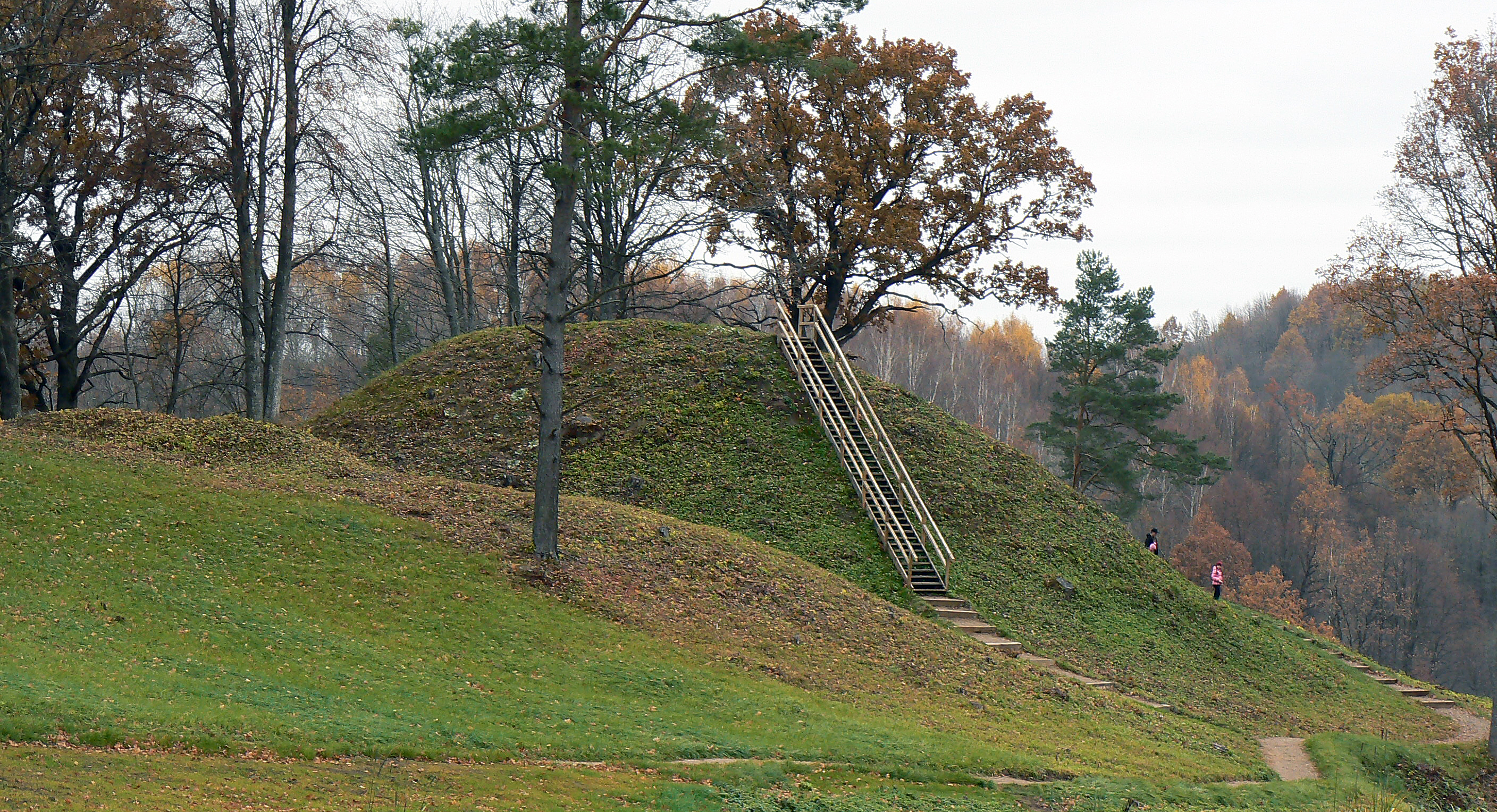 Biuvydai hillfort.